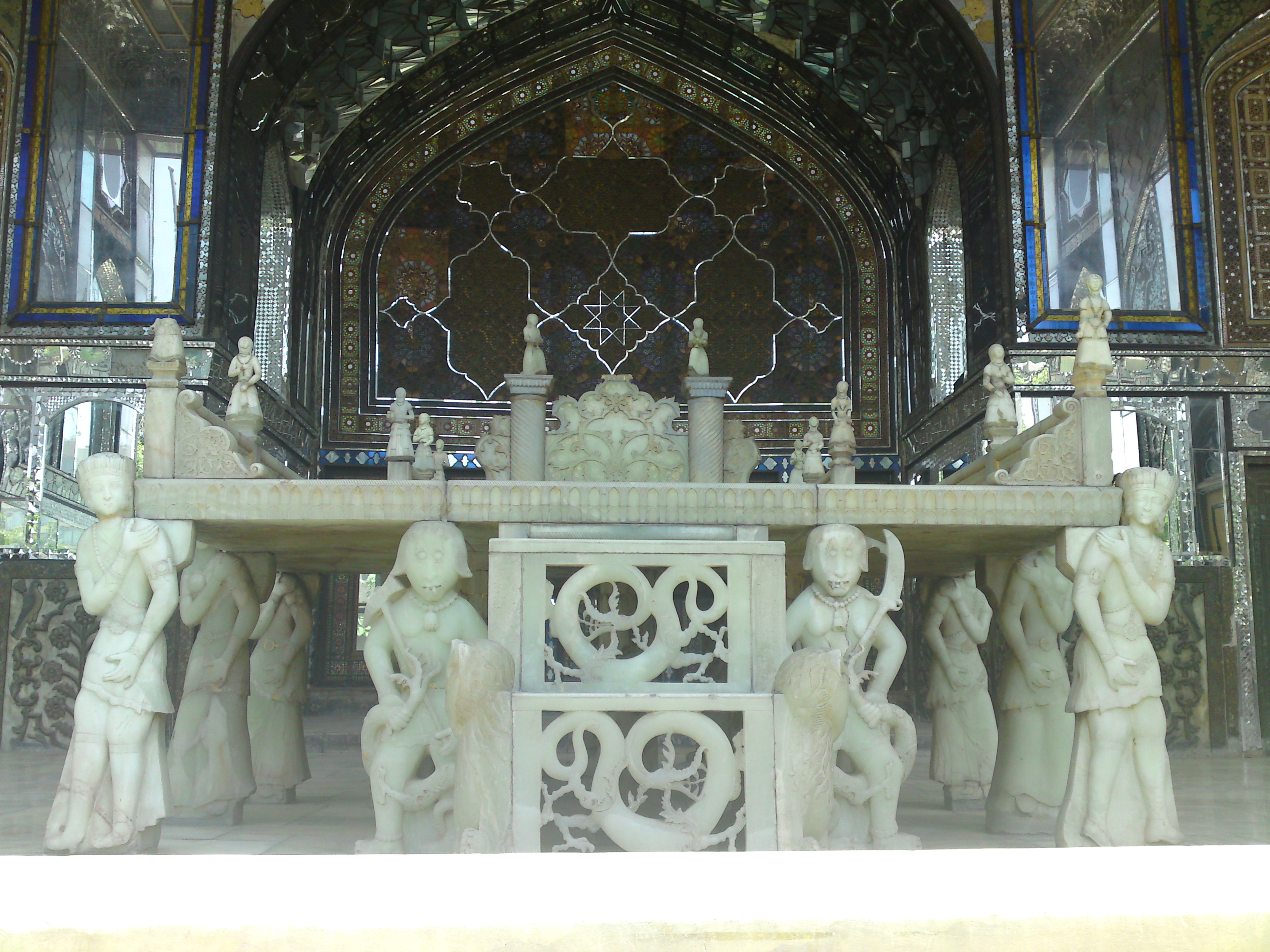 Takht Marmar balcony of Shams-ol-Emareh — Golestan Palace compound